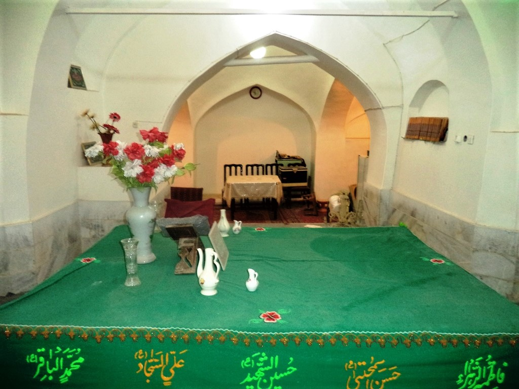 Mausoleum of Imamzadeh Seh Tan- Agha Nour Mosque- Isfahan- ارامگاه امامزاده سه تن Burial Place of Zain Al Abdeen Shahshahani (1828-1900)